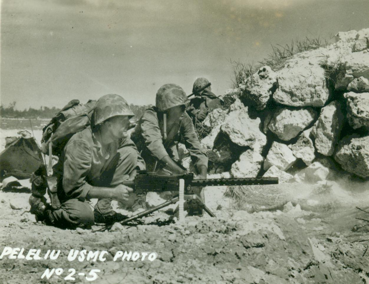 From the Frederick R. Findtner Collection (COLL/3890), Marine Corps Archives & Special Collections OFFICIAL USMC PHOTOGRAPH